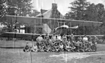 Chandler Field, Pennsylvnaia, training class